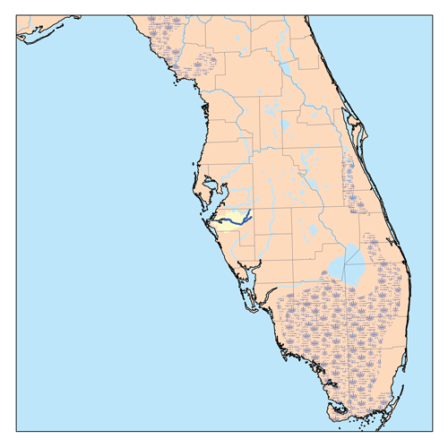 This is a map of the Manatee River watershed. I, Karl Musser, created it based on USGS data.